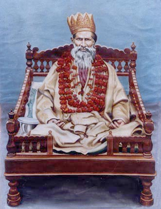 Artificially coloured photo of Shiv Dayal Singh (founder of Radha Swami Mat) sitting upon his meditation chair or 'gaddi' at his home in Panni Gali, AGRA, India.